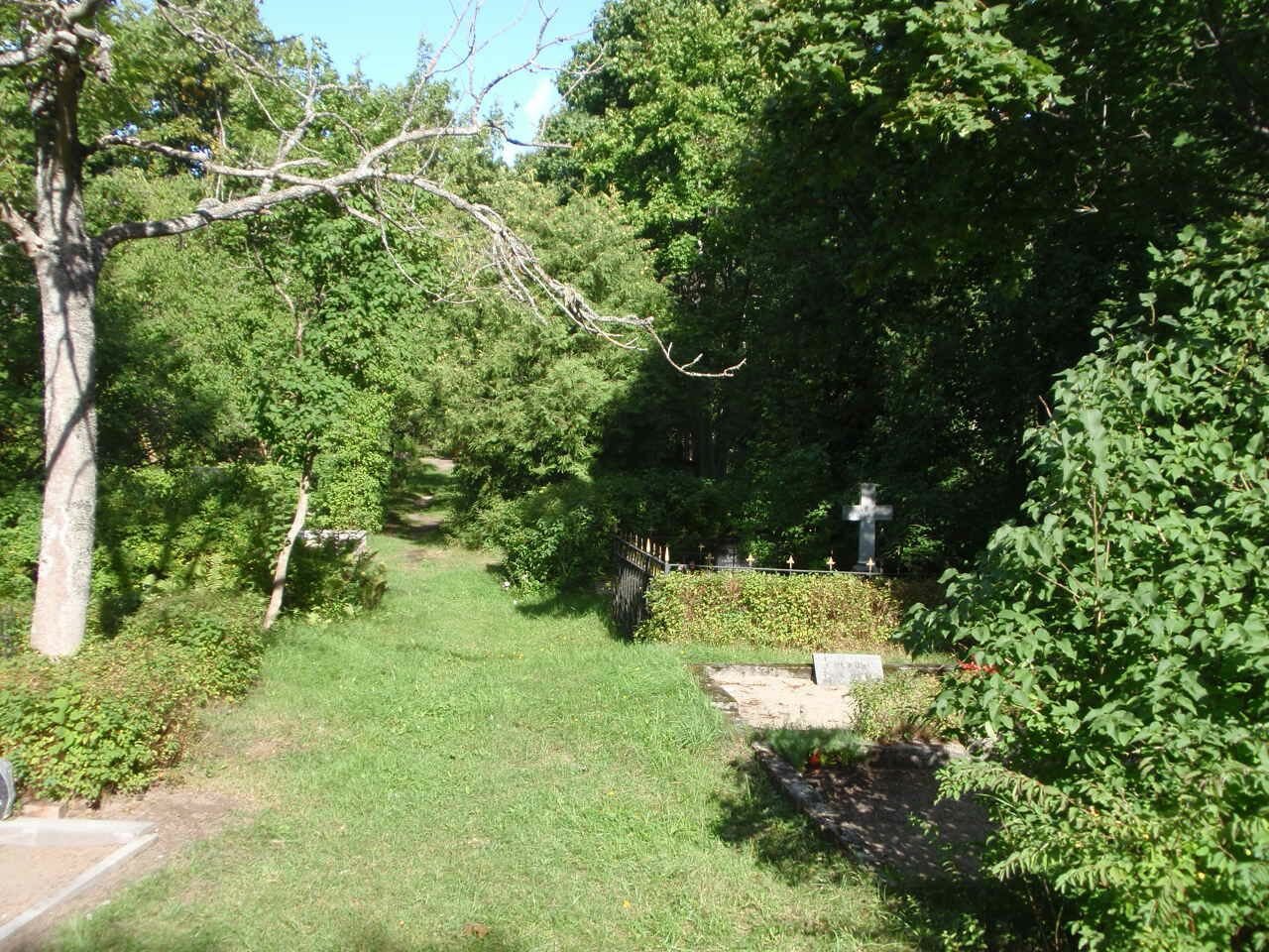 Pirita cemetery in Tallinn.